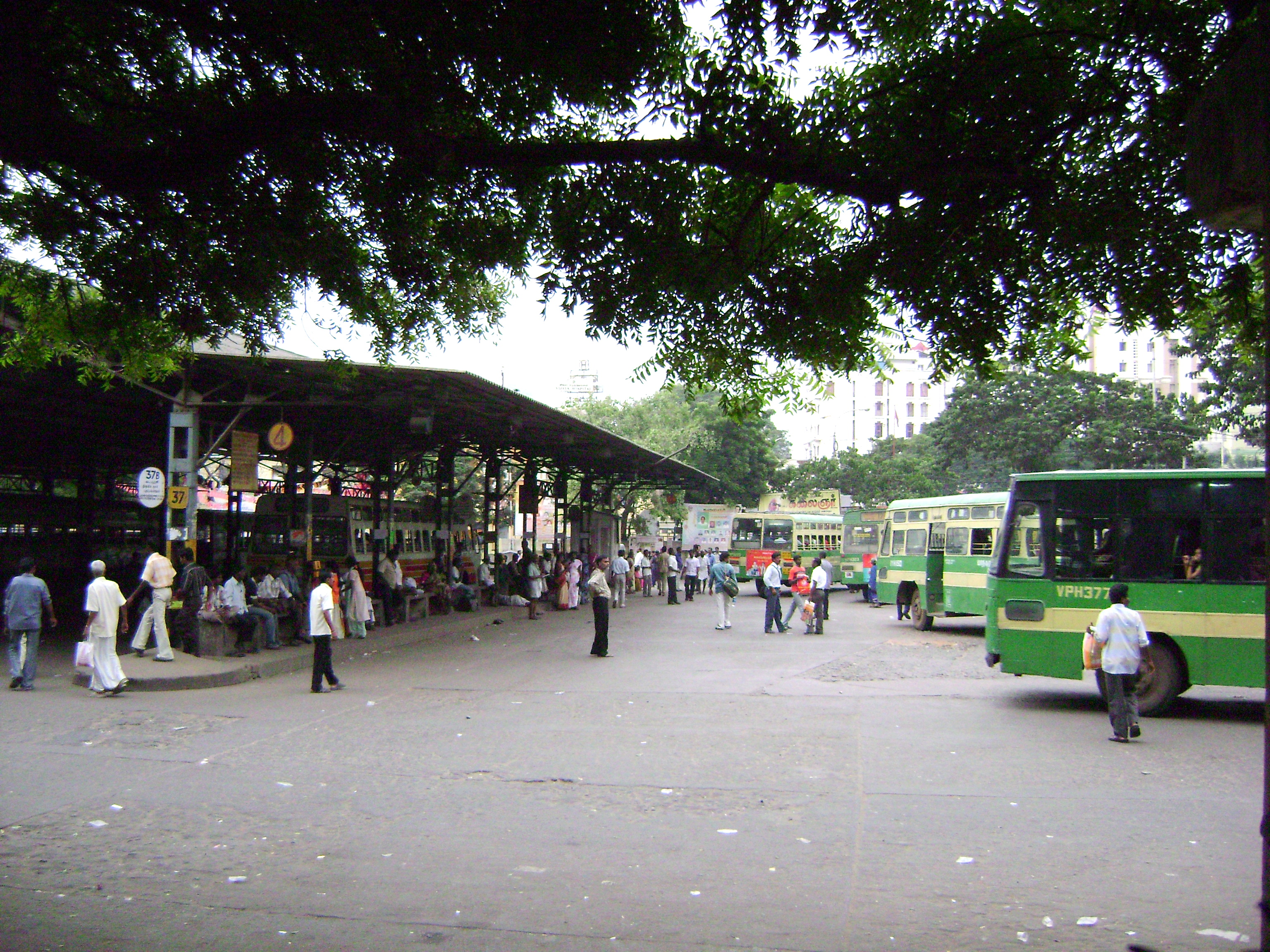 Vadapalani bus terminus